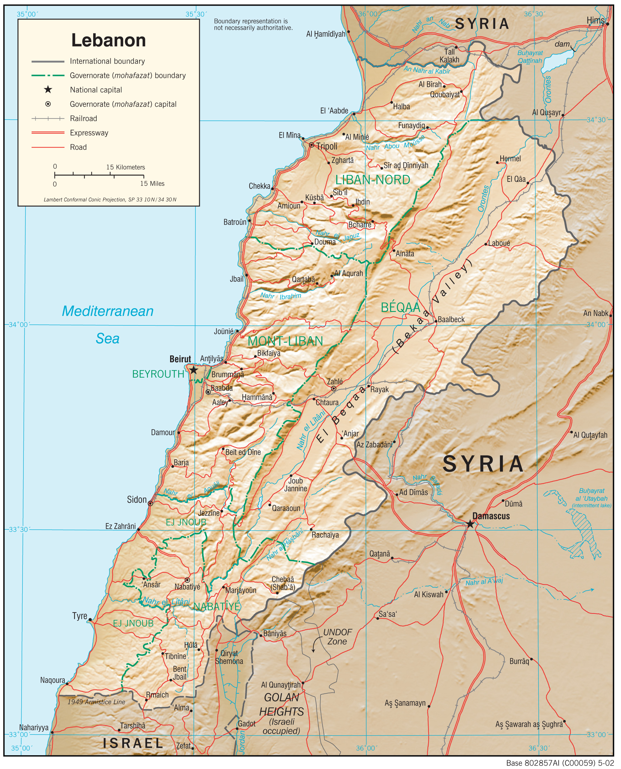 Topographic map of Lebanon (shaded relief), 2002.